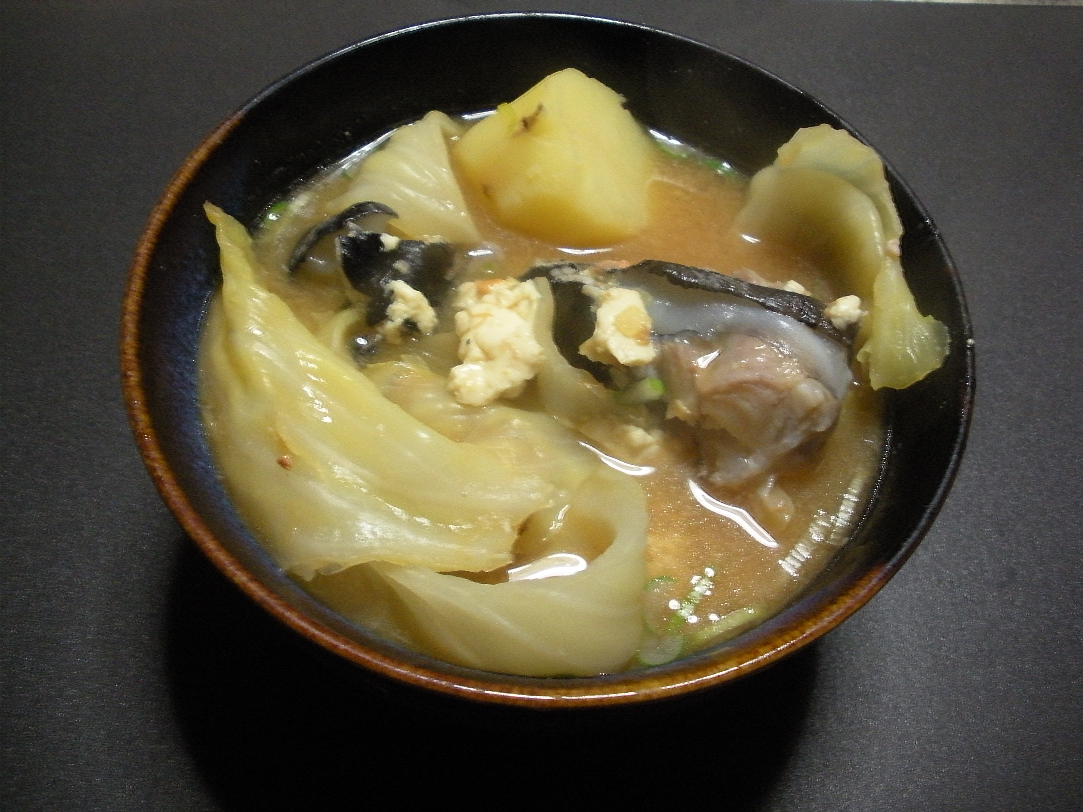 Japan Hokkaido Lumpsuckers Soup